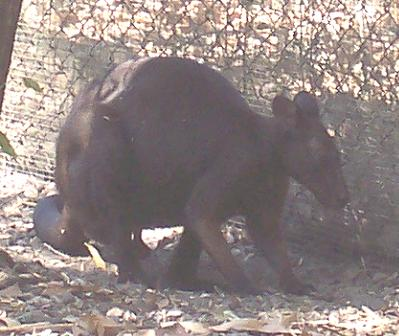 Black Wallaroo (Macropus bernardus) in Territory Wildlife Park, Northern Territory, Australia